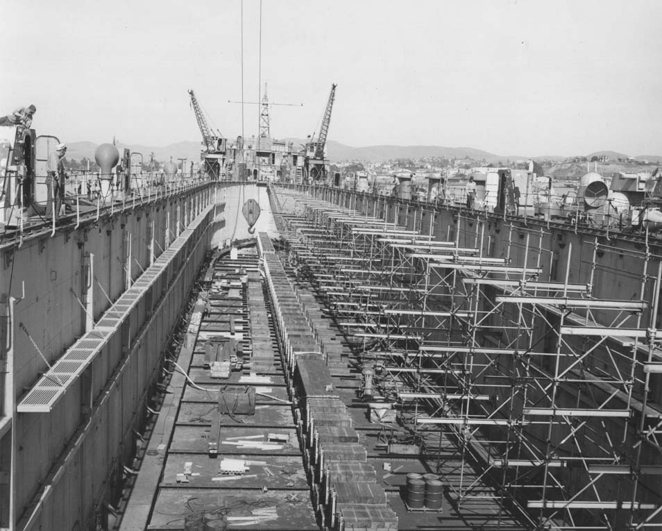 USS ARD-10 receiving a new paint at Mare Island Naval Shipyard in Vallejo CA. in a photo in the 13 March 1962 edition of the US Navy shipyard newspaper Grapevine. ARD-10 at this time was part of the Pacific Reserve Fleet. US Navy photo